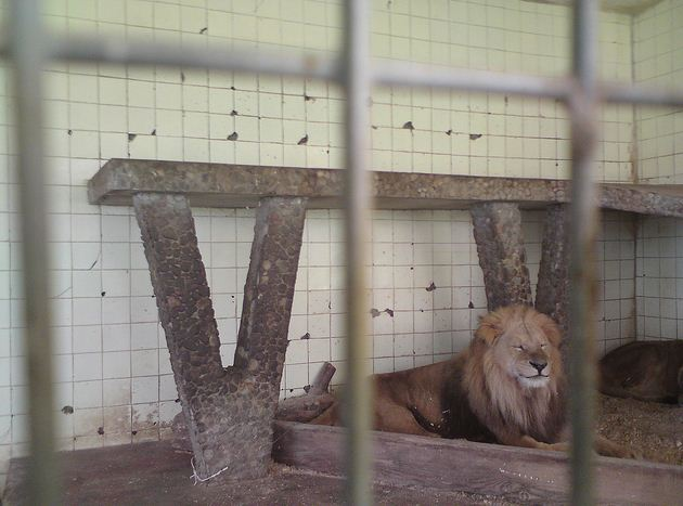 The lion in the Zoo of Tirana.